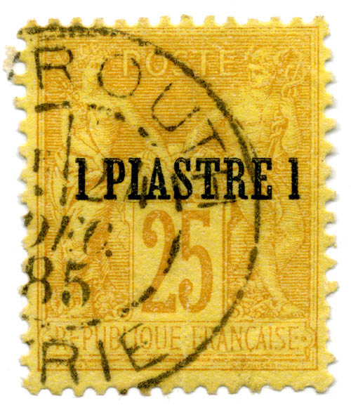 Scan of French post offices in the Turkish Empire 1-piastre stamp of 1885